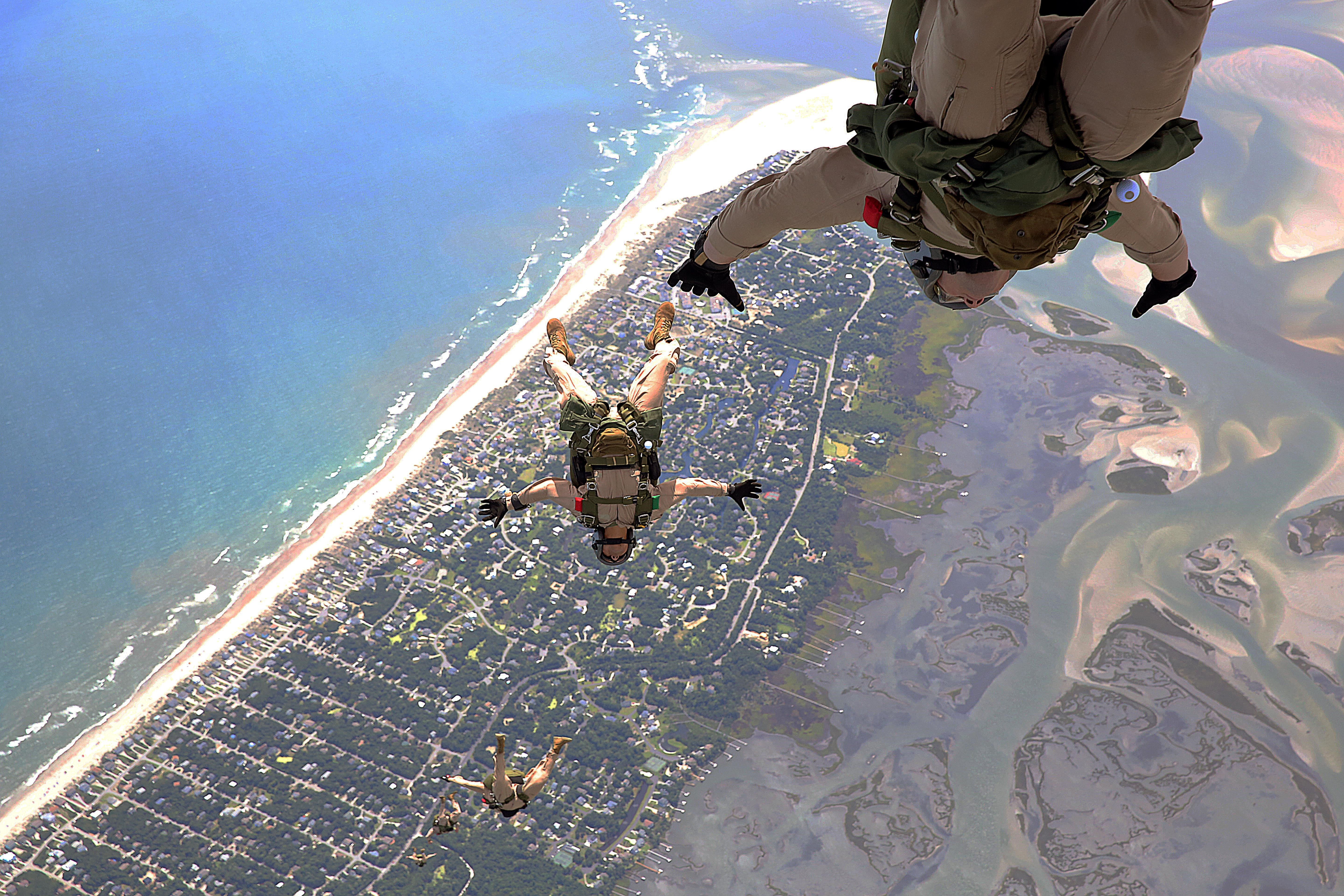 Camp Lejeune, NC – Marines with U.S. Marine Corps Forces, Special Operations Command freefall during a High Altitude Low Opening (HALO) training exercise at an airfield in North Carolina, July 8, 2013. The Marines conducted the HALO jump to reinforce the skills employed to safely complete the exercise. Lt. Regan L. Walcott, USMC, CSO, MOS Hazardous Fire, attached to 1st MSOB, 22 MEU, 26th MARSOC, before deployment to Afghanistan.